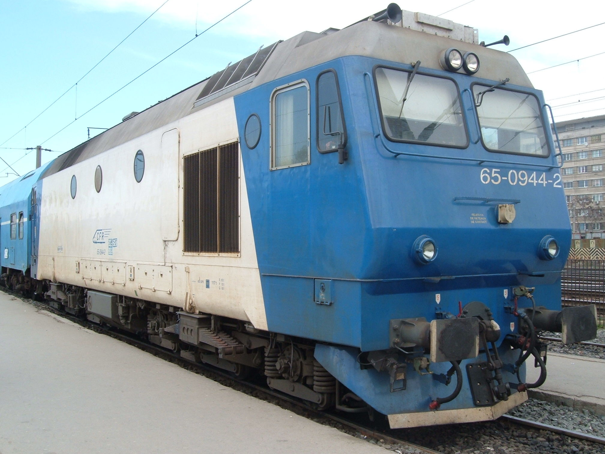 CFR Class 65 locomotive in Bucureşti Nord station. Park number 65-0944-2